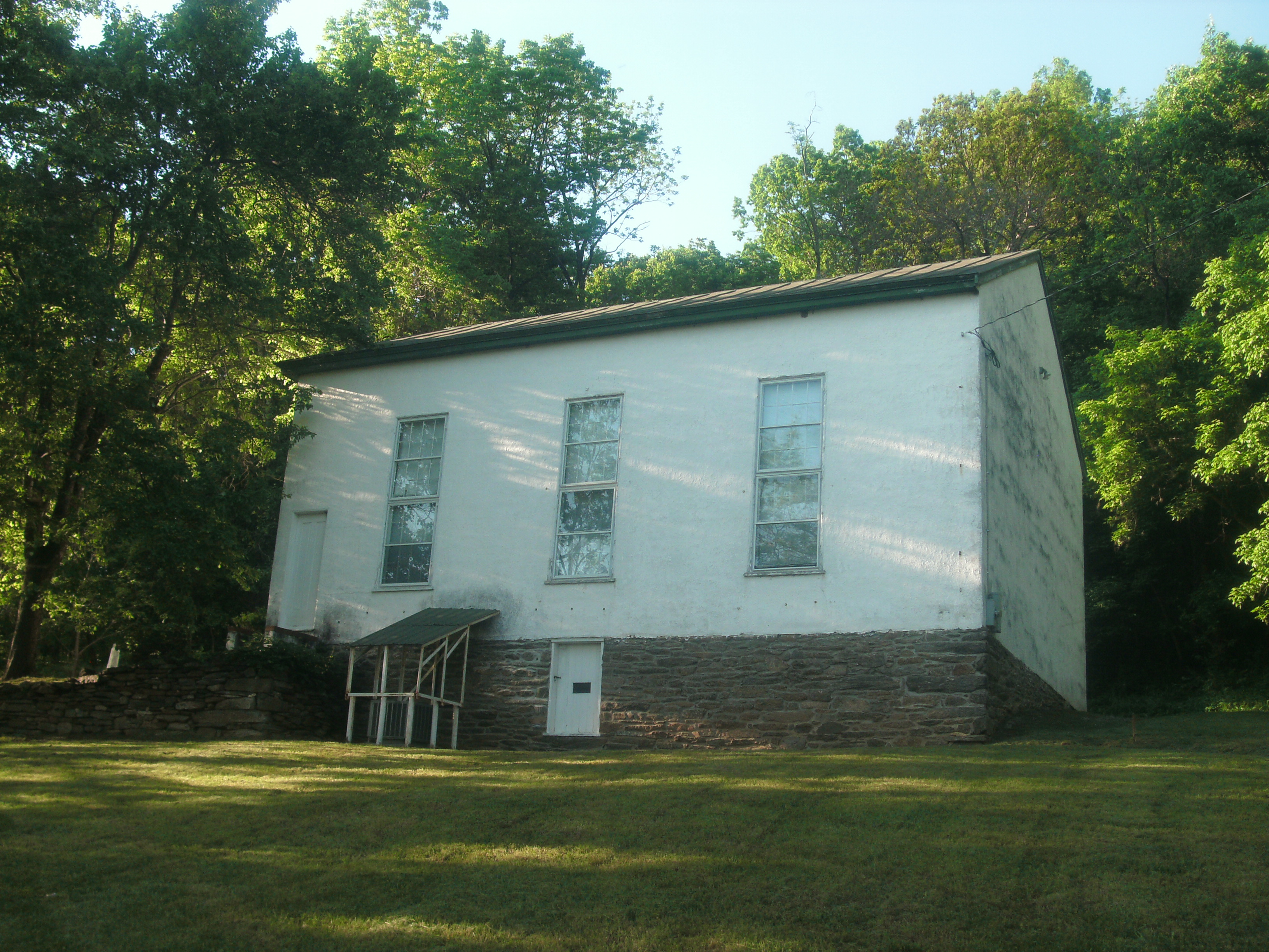 Taken by me in May, 2016 GEDSC DIGITAL CAMERA